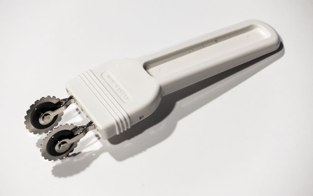 A double tracing wheel, for transferring parallel lines from a sewing pattern to fabric. The removable wheels are spaced 3/4" apart.